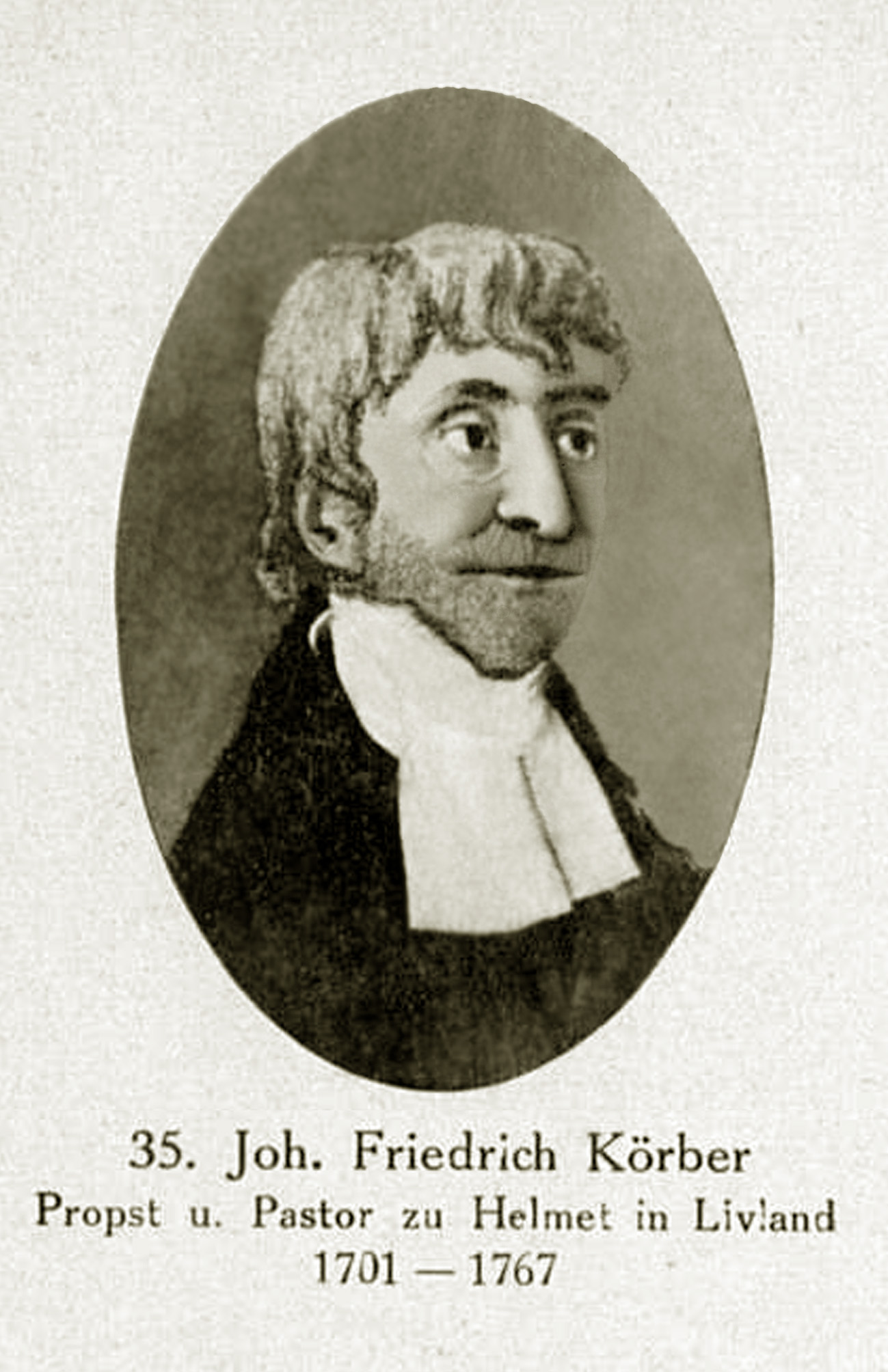 Pastor Johann Friedrich Körber. Seuberlich E. «Stammtafeln Deutsch-Baltischer Geschlechter» 1931.